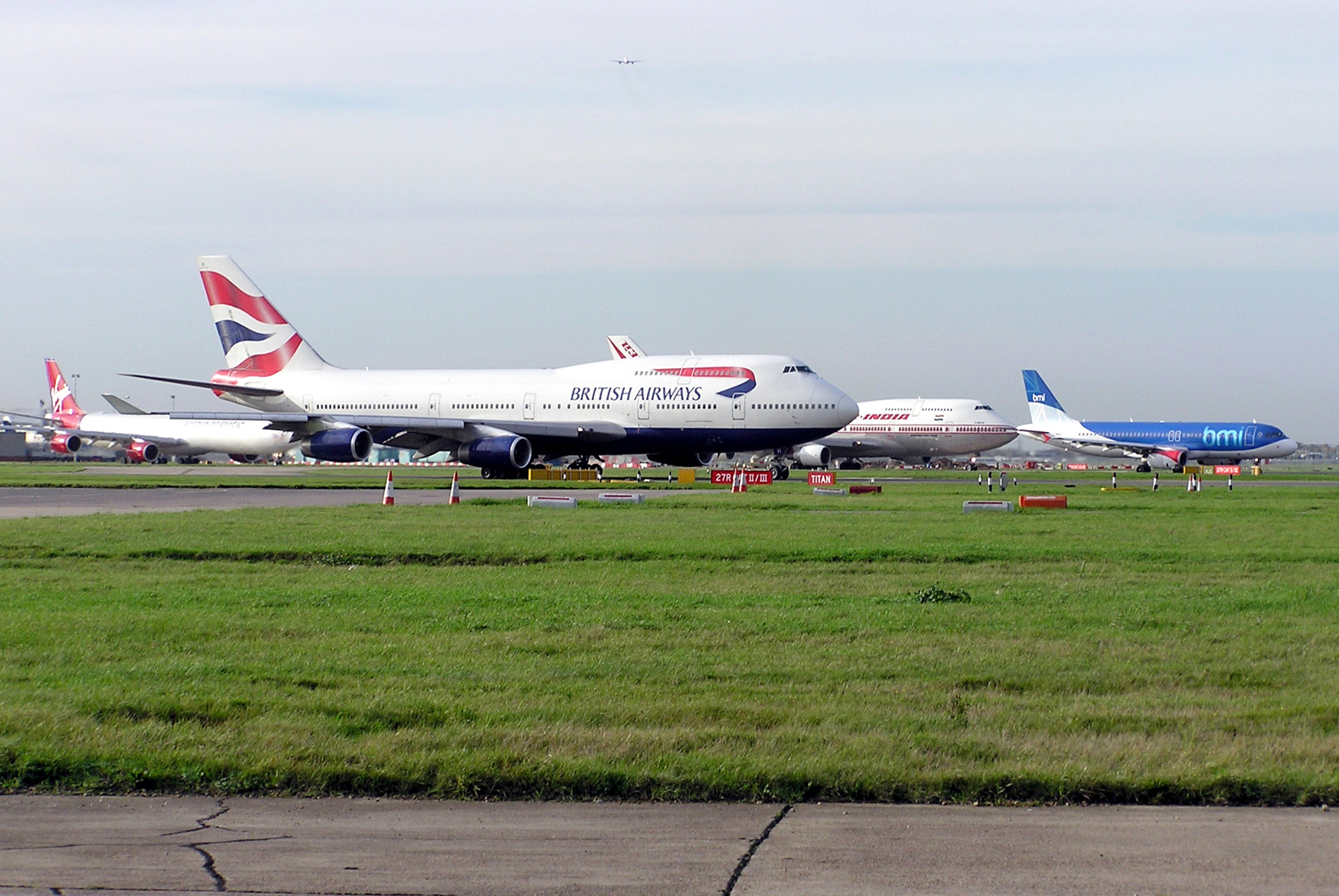 Four aircraft queue at London Heathrow Airport (England), for take off from runway 26R (the eastern end of the northern of the two main Heathrow runways). The aircraft, L to R, are Virgin Atlantic Airways Airbus A340, British Airways Boeing 747, Air India Boeing 747 and bmi (which is British Midland Airways) Airbus A320.